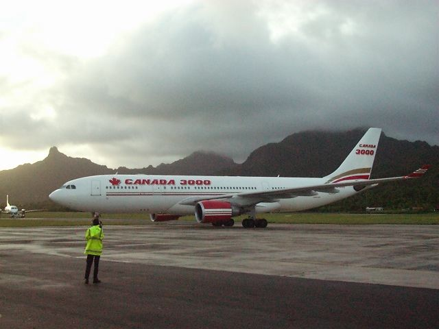 Canada 3000 Airbus A330 at Rarotonga - Feb 2001